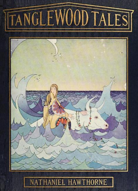 Virginia Frances Sterrett: illustrator She was born in Chicago in 1900. Her father died when she was very young, and her mother moved with Virginia and her sister to live with their extended family. Demonstrating an early talent for art, she entered and won prizes in drawing competitions at the Kansas State Fair Exhibition. Her course in life as an illustrator was set, and as a teenager she began to work for various advertising agencies. A bout of tuberculosis left her in a state of permanently poor health. Her talent for fantasy art caught the attention of publishing houses, and at the age of 19 she completed her first book illustration commission for the volume “Old French Fairy Tales”. The same publishing company, Penn, immediately employed her again to illustrate “Tanglewood Tales”. By 1923, her illness had become so severe that it was necessary to enter a sanitorium as a long-term patient